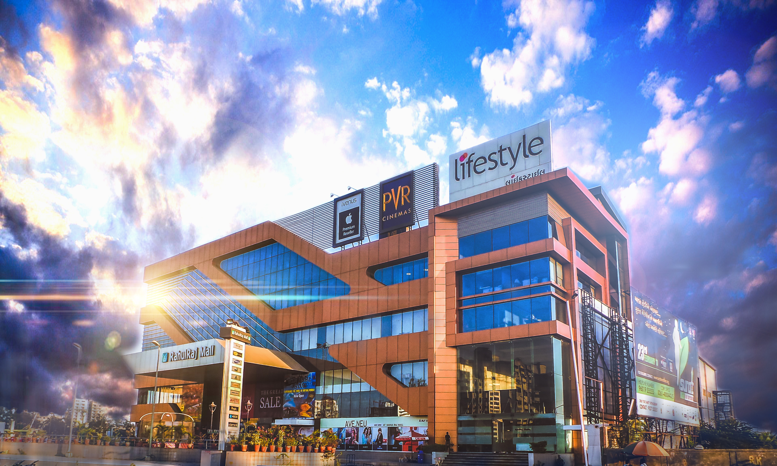 processed in photoshop